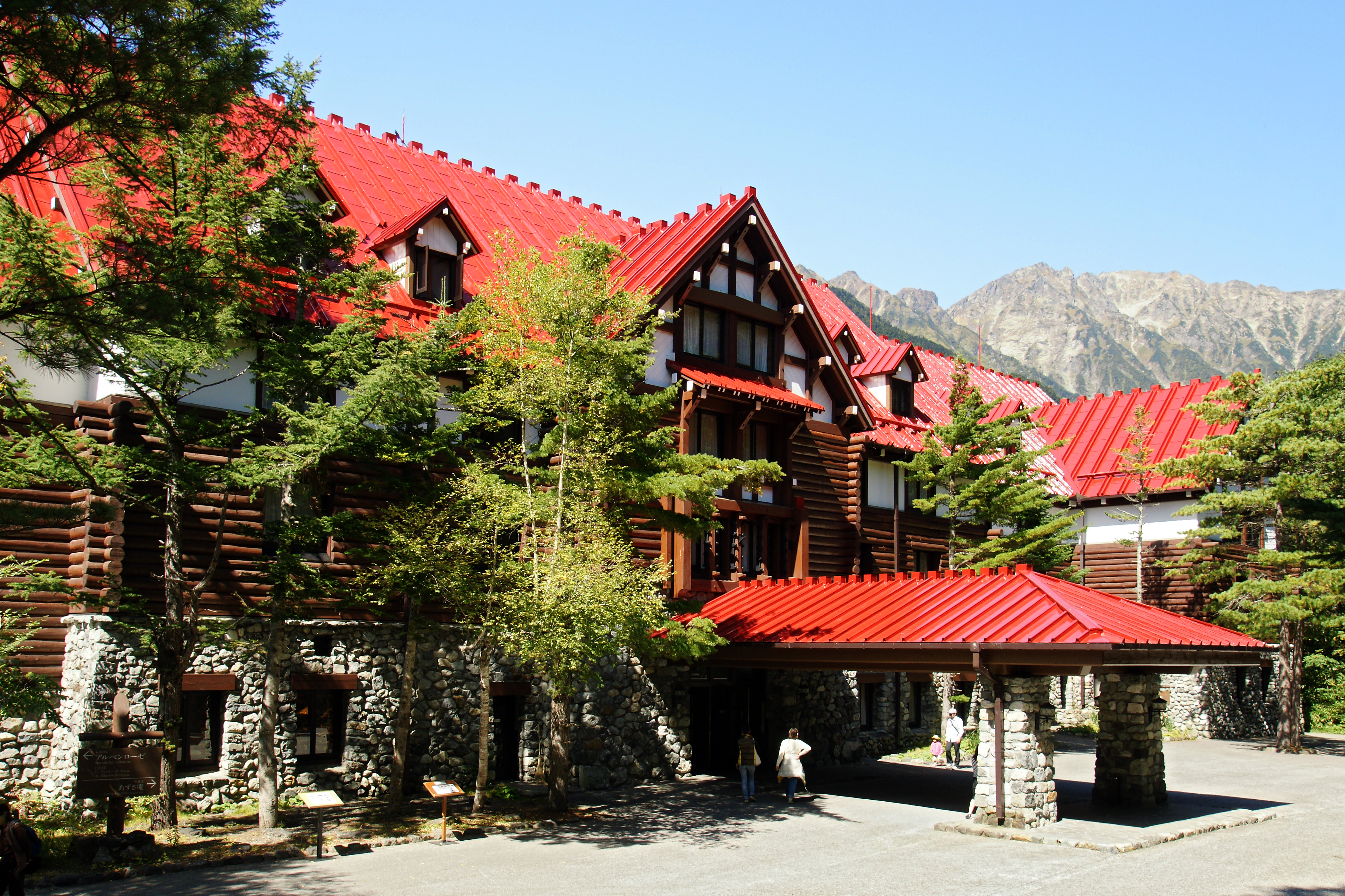 Kamikochi Imperial Hotel in Kamikochi, Matsumoto, Nagano prefecture, Japan